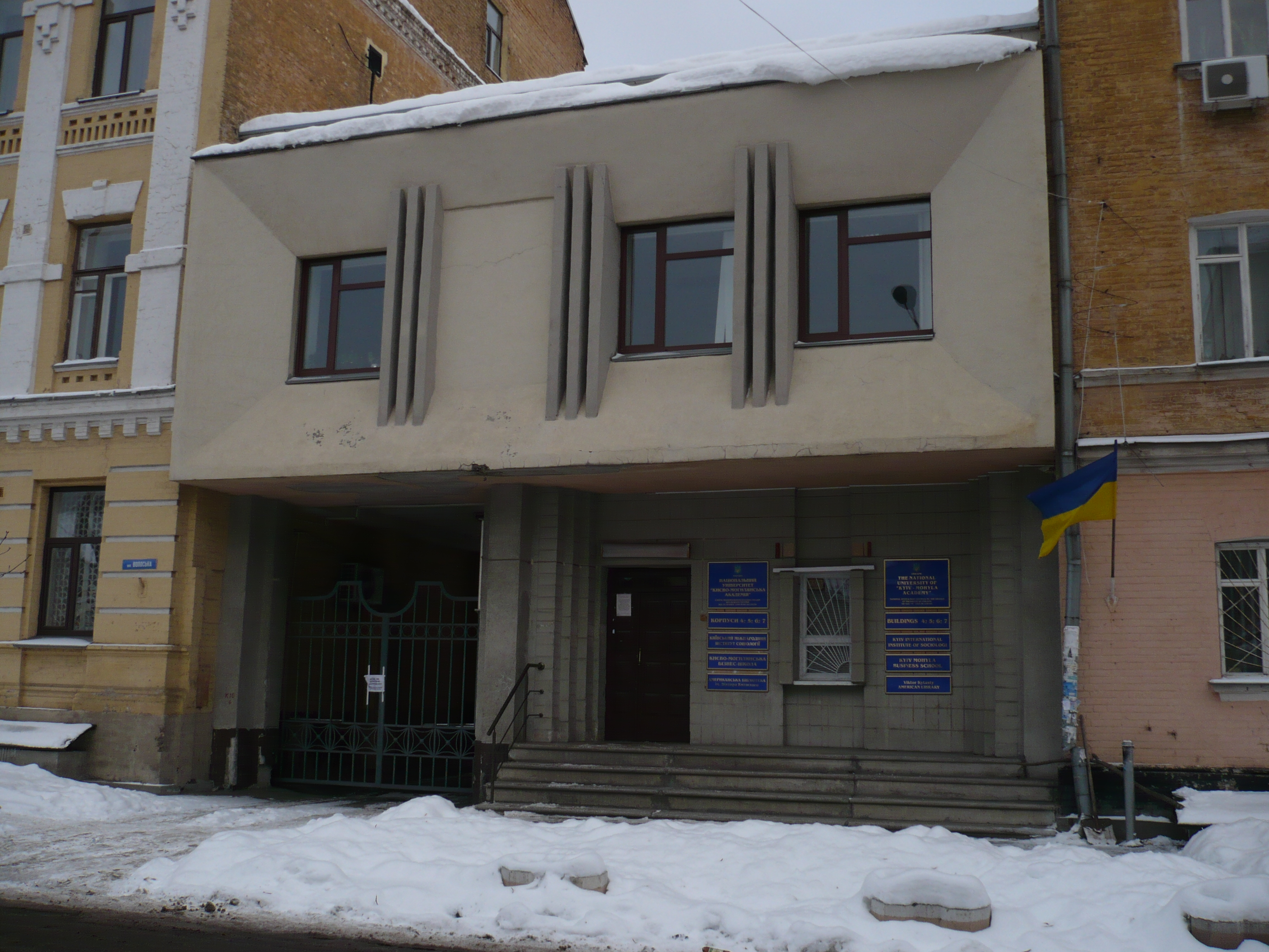 Entrance to Kyiv-Mohyla Business School